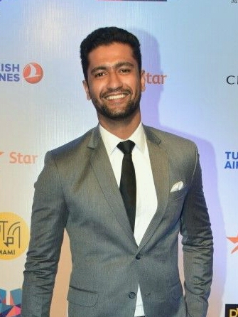 Vicky Kaushal at the MAMI Film Festival 2017.